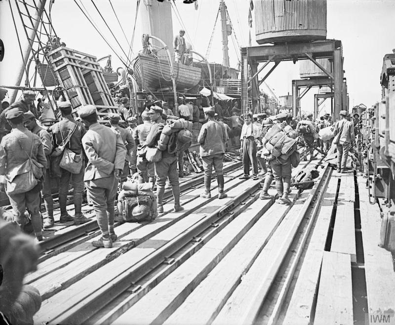 The Greek landing in Smyrna, 15th May 1919.